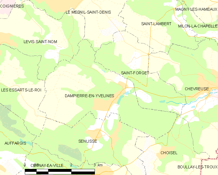 Map of French municipality Dampierre-en-Yvelines